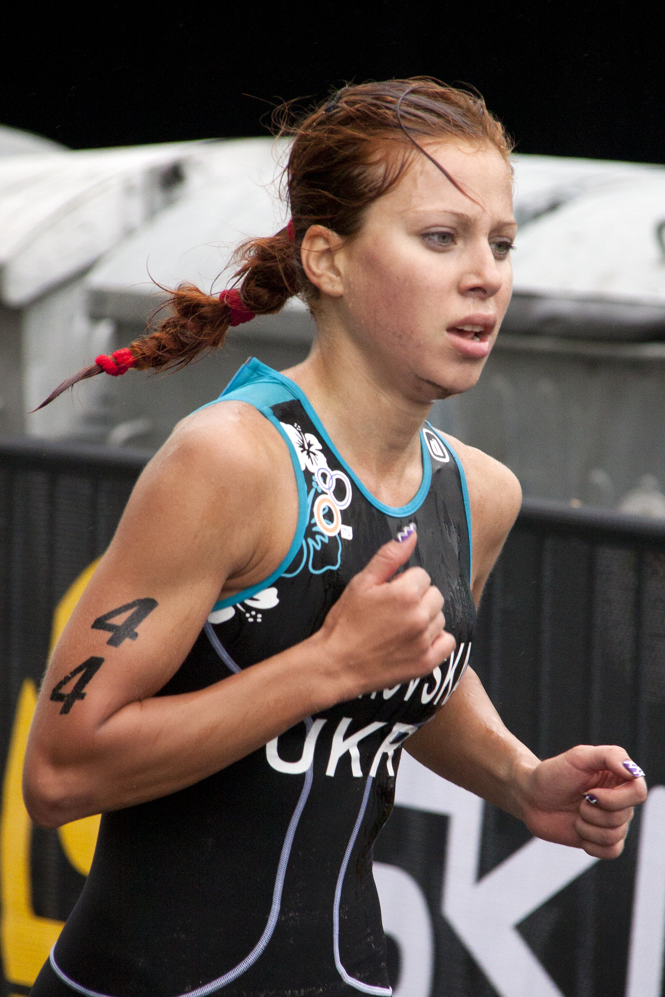 Kseniia Levkovska (Ксения Левковская) at the U23 World Championship Triathlon / Grand Final of the World Championship Series triathlon in Budapest 2010.